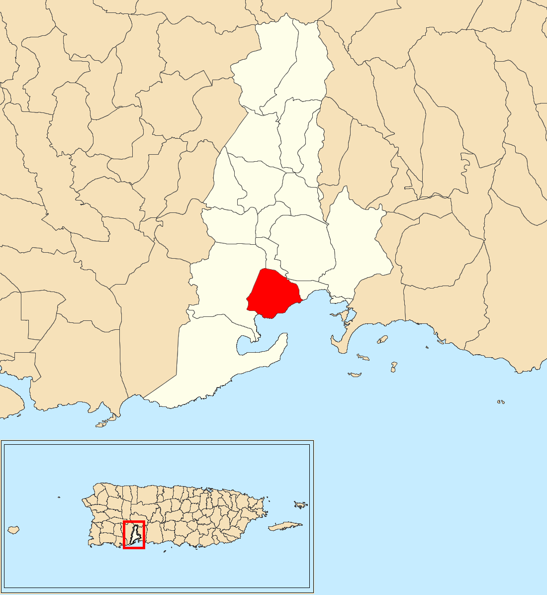 Rufina, Guayanilla, Puerto Rico locator map